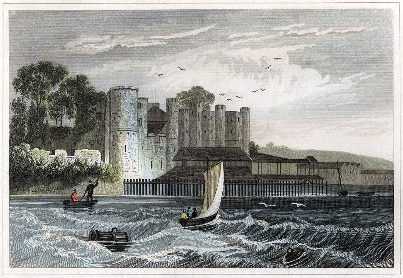 View of Upnor Castle, Kent, from the River Medway